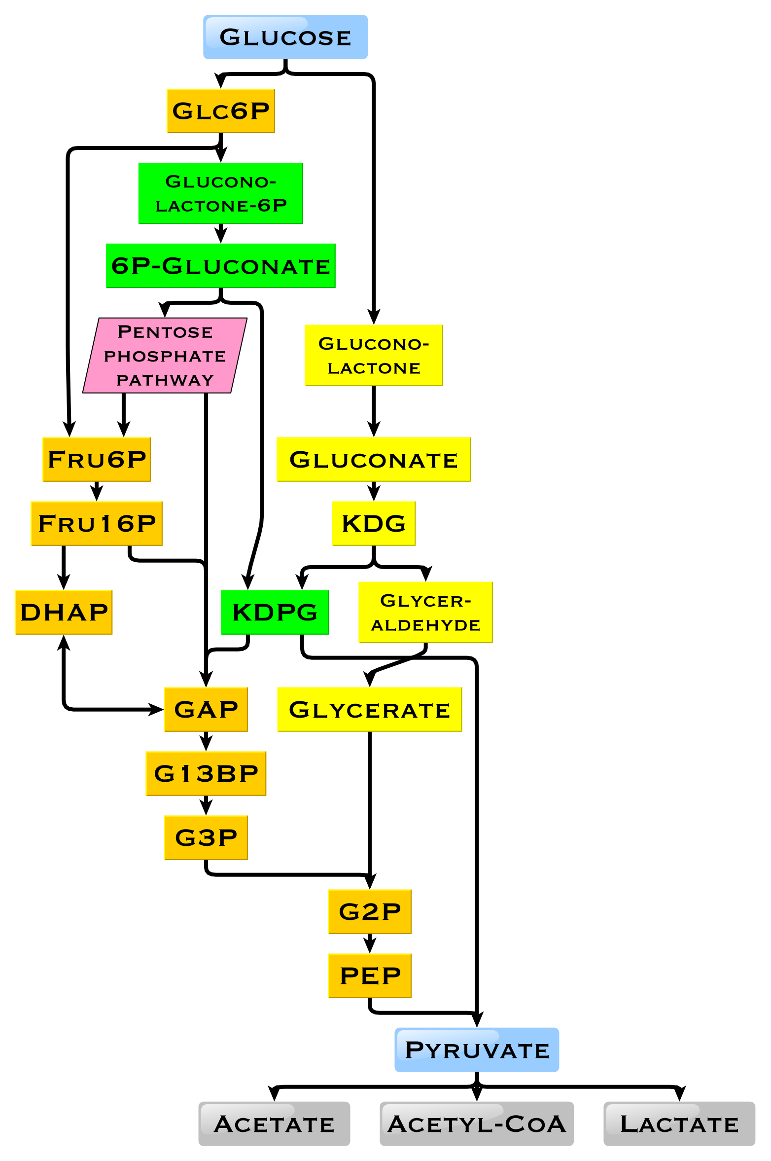 Graph having intermediates of glucose catabolism as nodes. Color code: Orange, glycolysis. Green, Entner-Doudoroff pathway, phosphorylating. Yellow, Entner-Doudoroff pathway, non-phosphorylating.